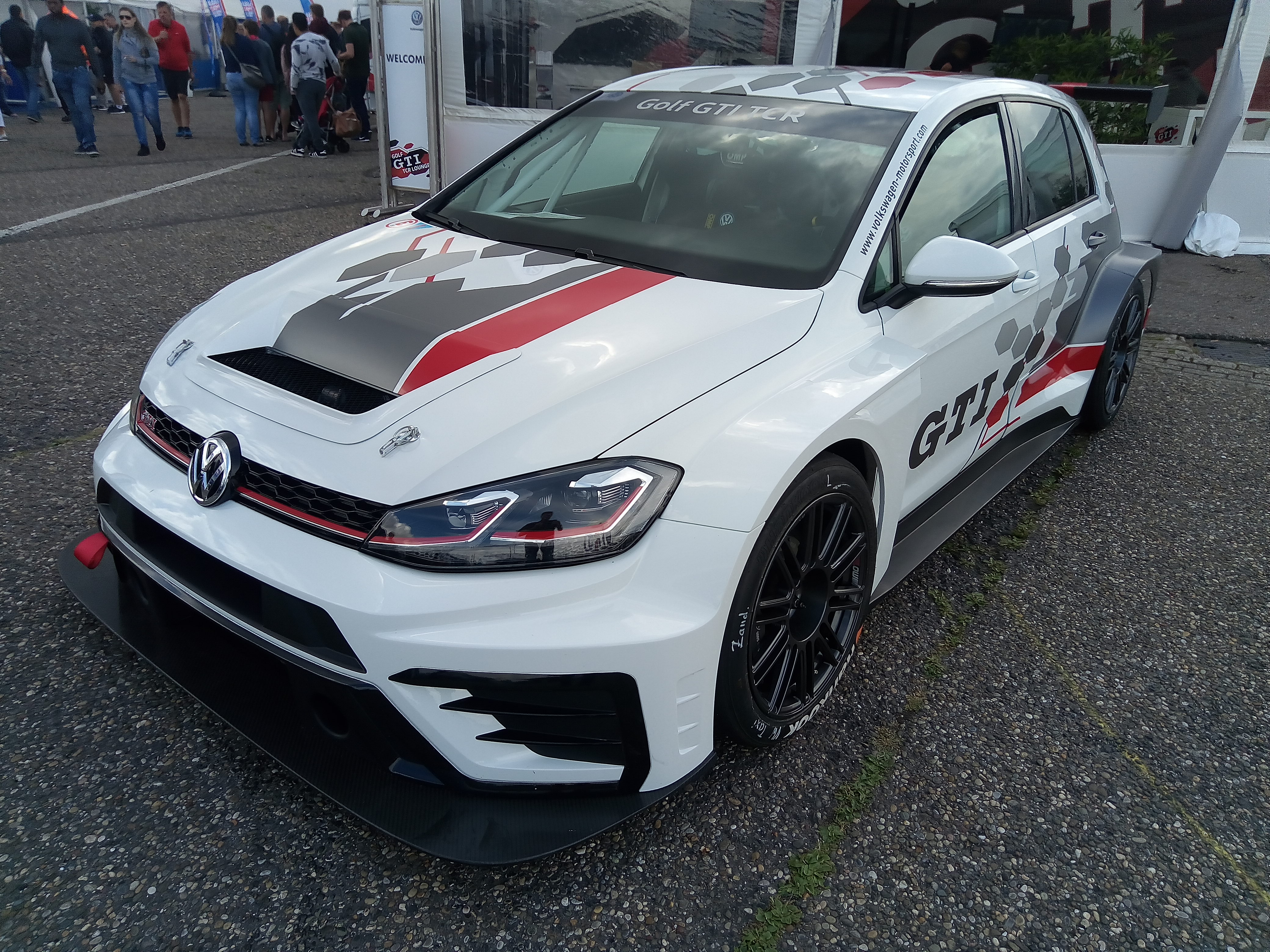 2017 Volkswagen Golf TCR on display during the 2017 ADAC TCR Germany Championship round at Circuit Zandvoort